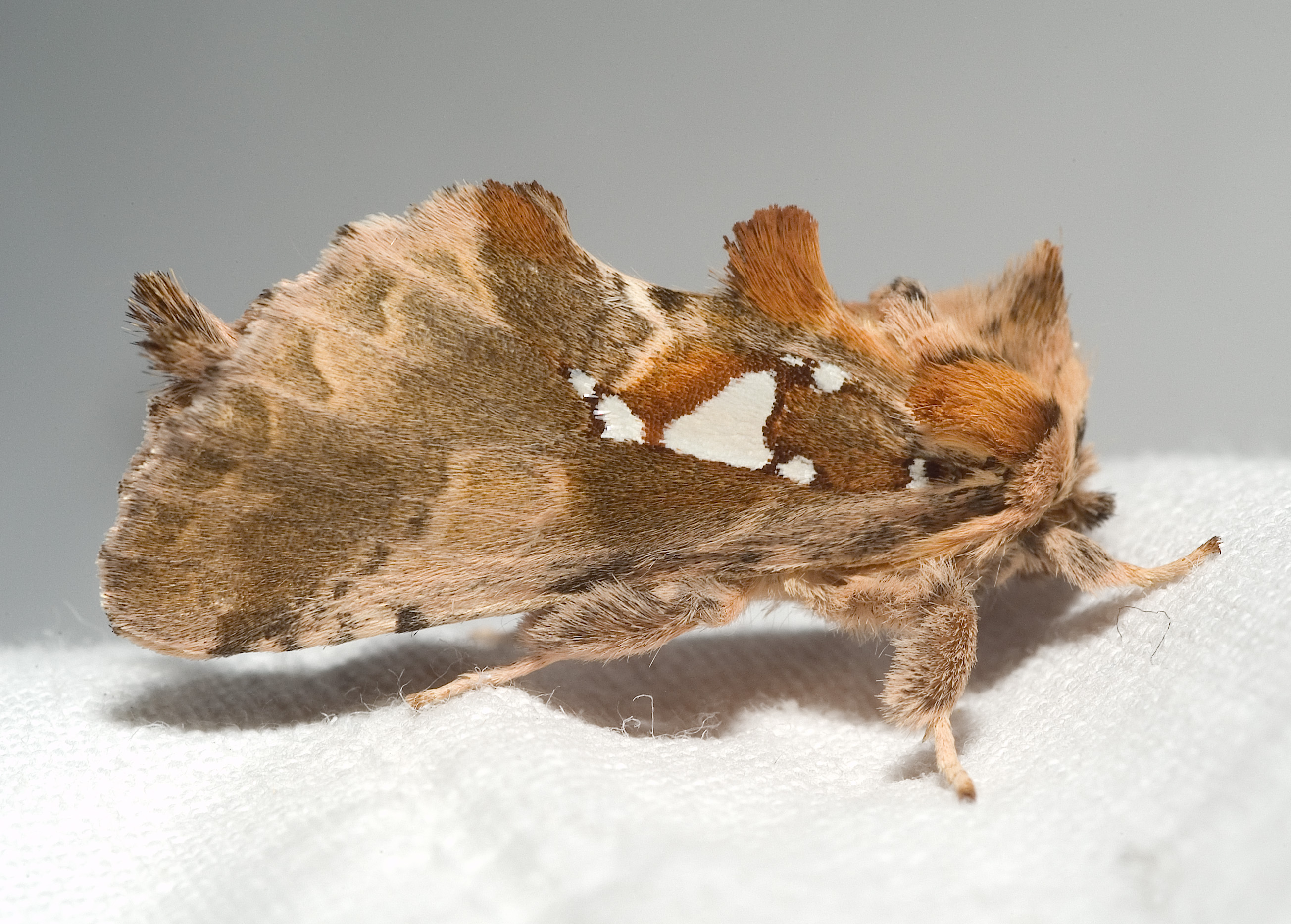 Please report references to kulacgmx.at.